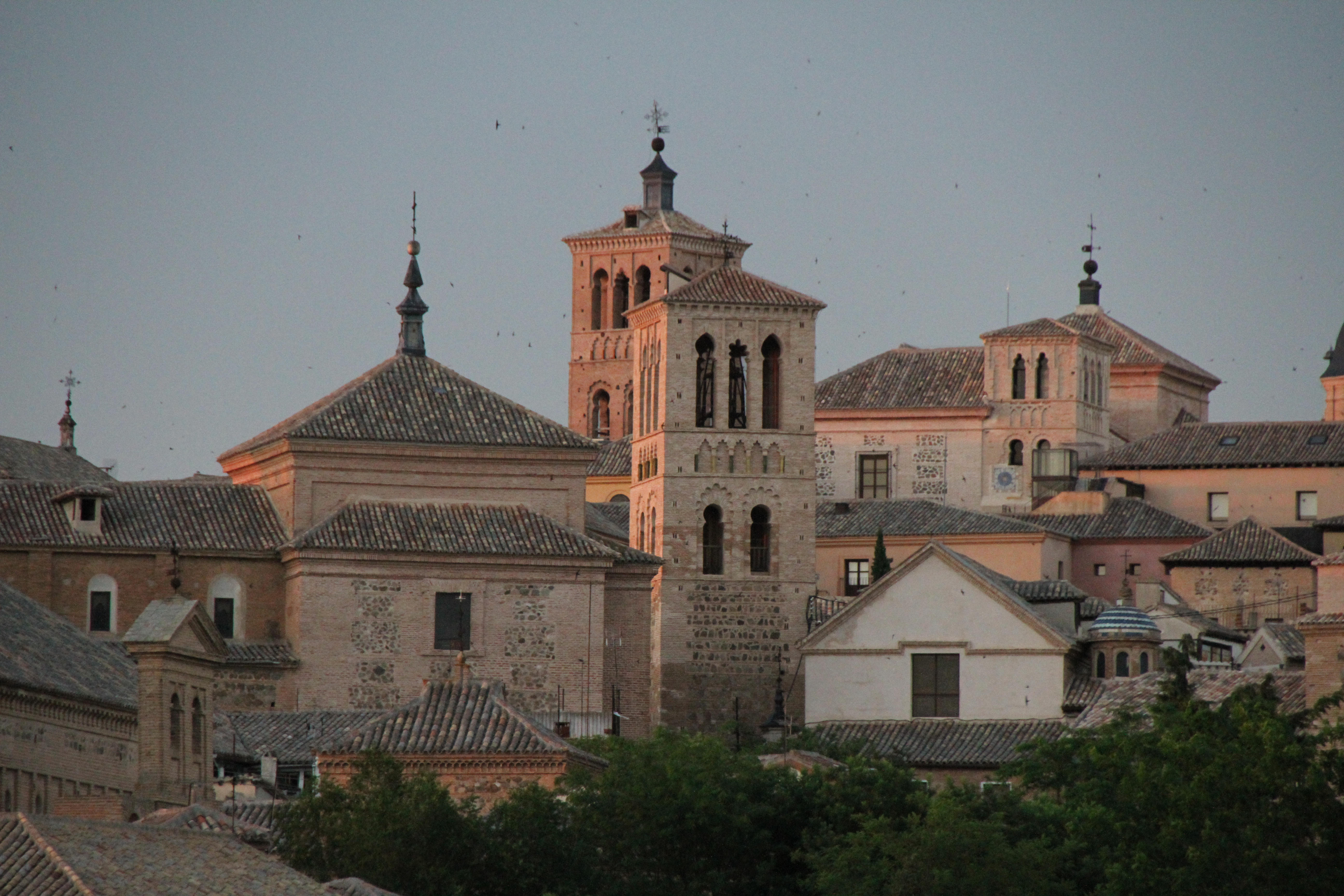 convento de San Pedro Mártir, Toledo, España